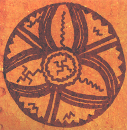 plate of Trypillian culture